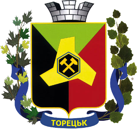 Coat of Arms of Dzerzhynsk, Donetsk Oblast, Ukraine